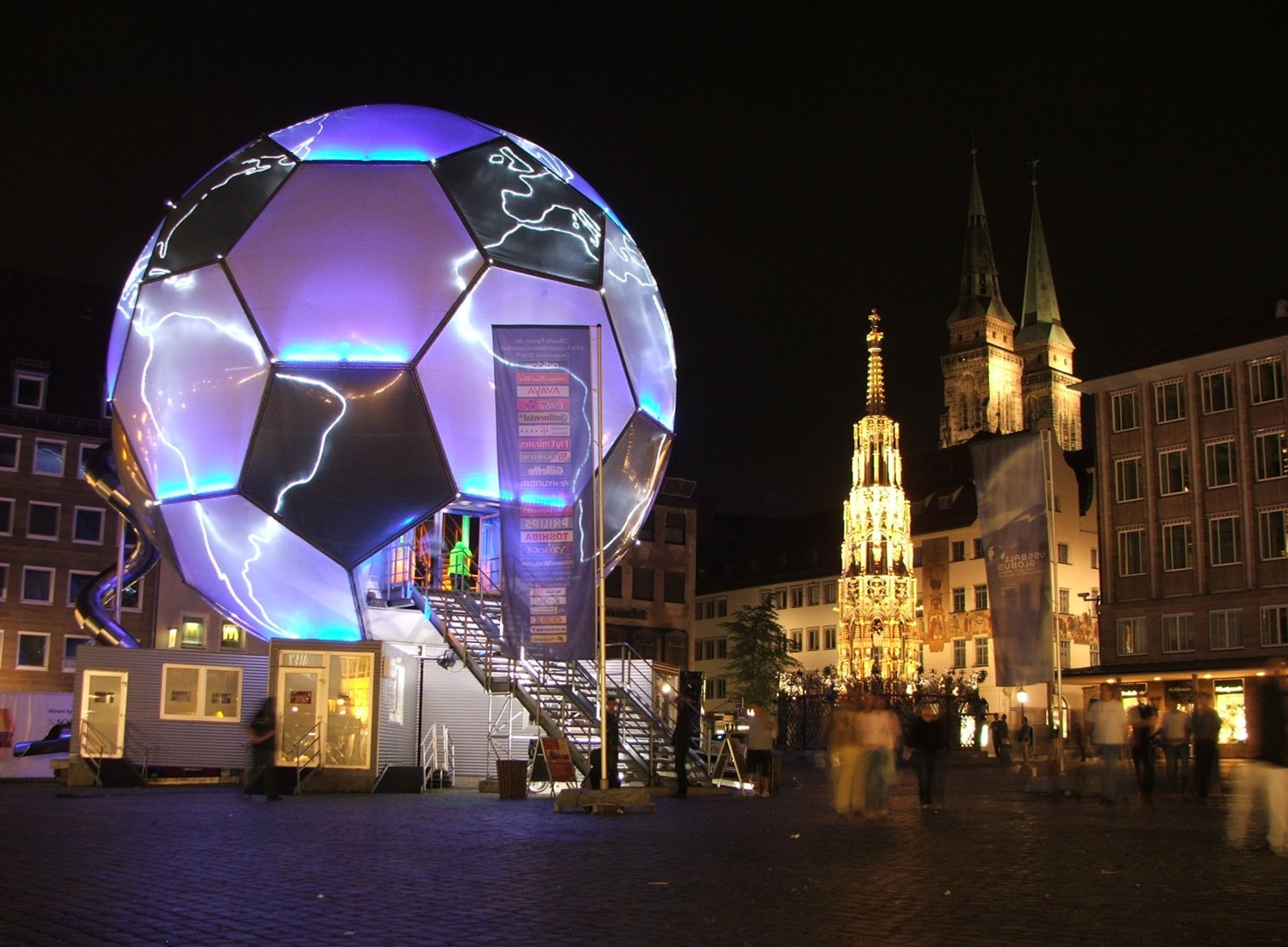 The Football Globe on the Hauptmarkt in Nürnberg/Germany